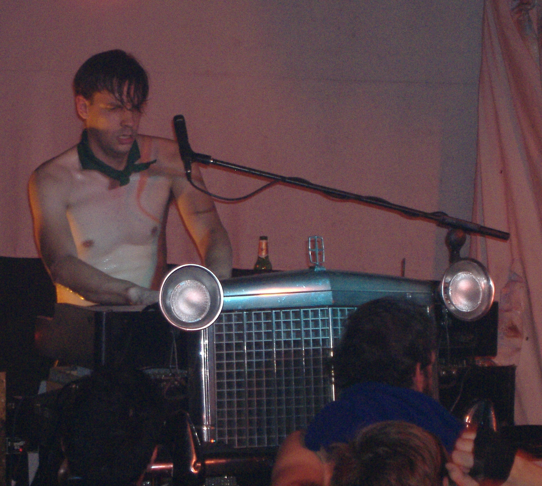 Photo of musician Quintron in concert, Chicago, Ill.